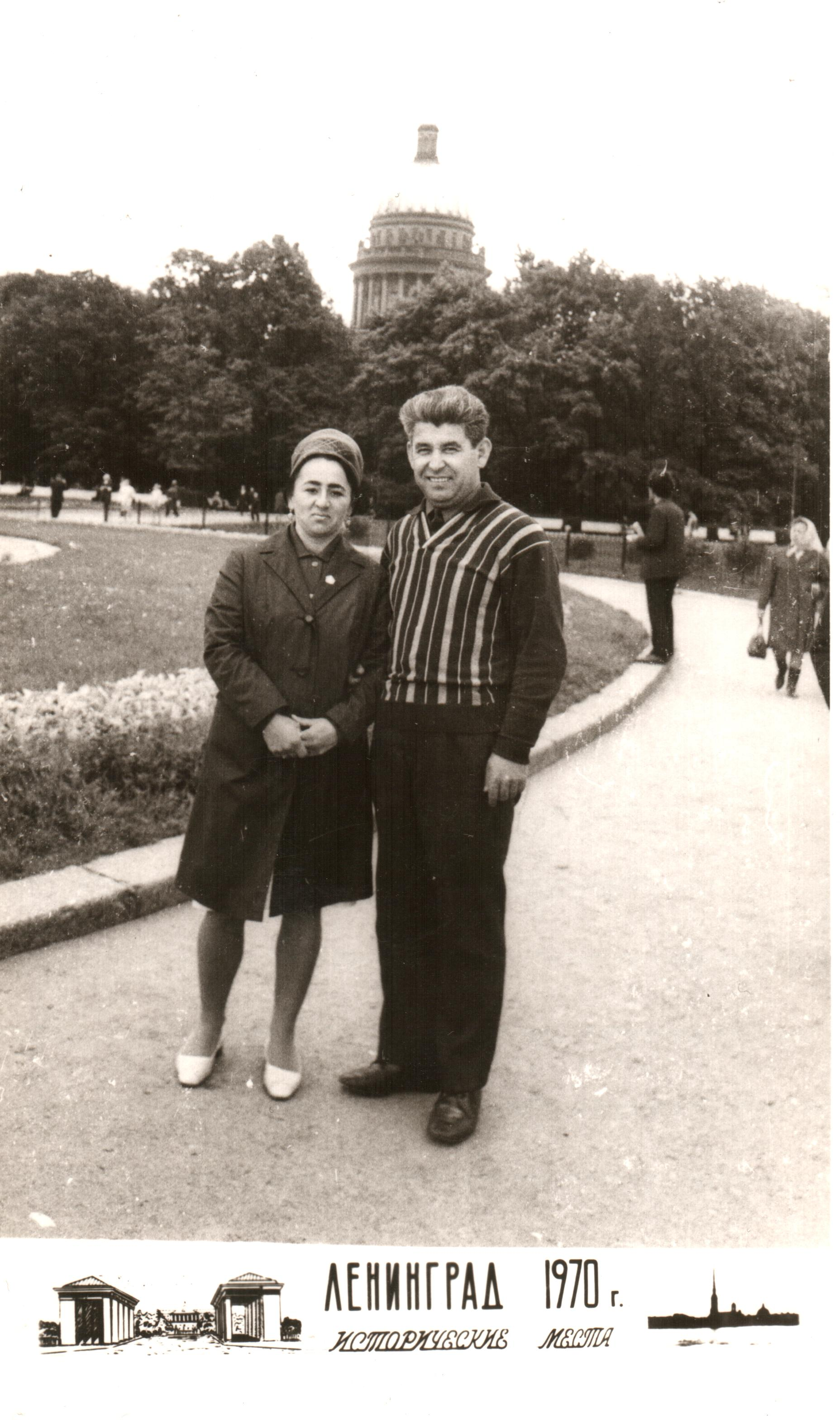 Toshev Obloqul with his wife Tosheva Ra`no in Leningrad (Sankt-Peterburg)